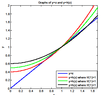 Three cases of y=h(z) intersects with y=z.